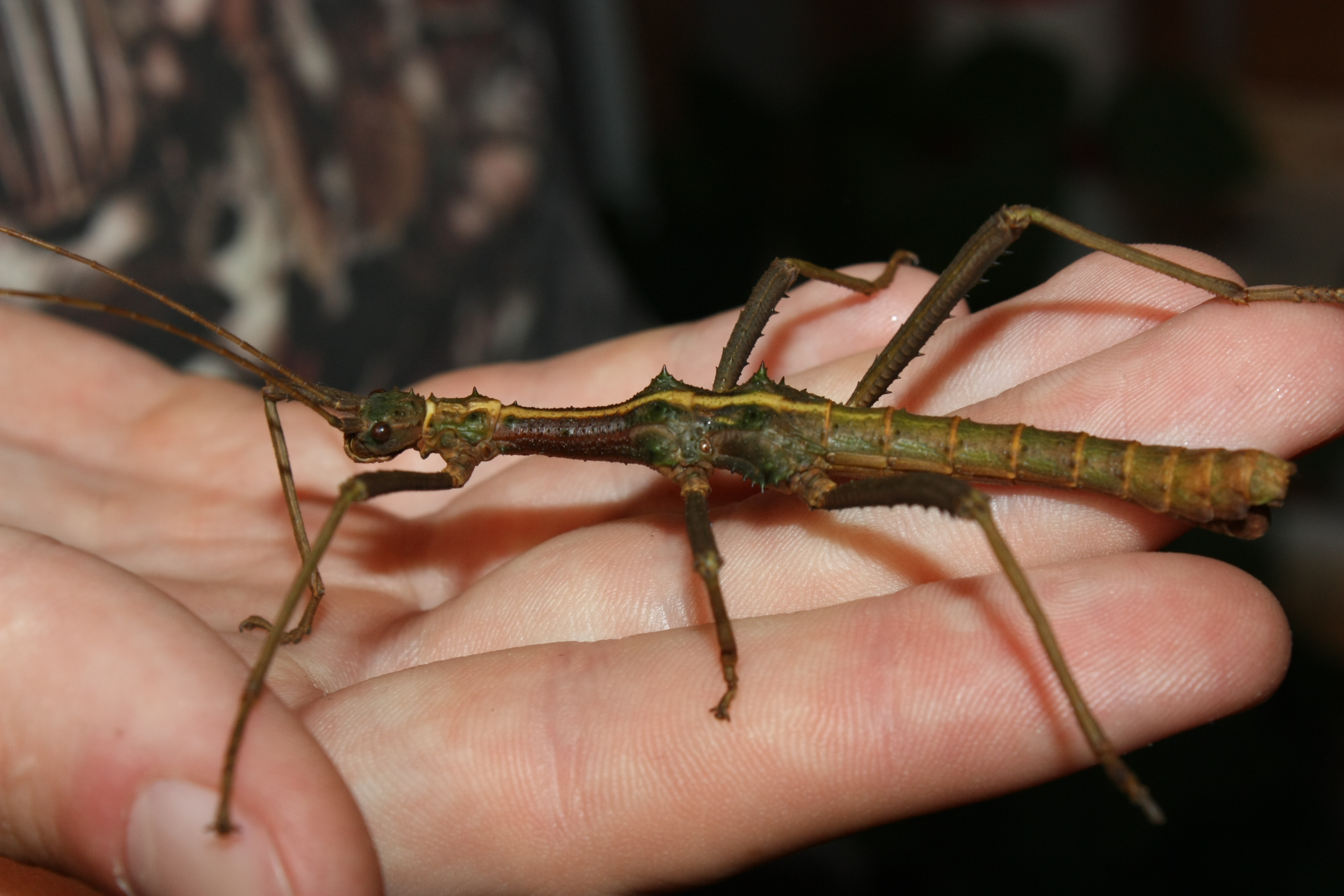 Male of Brasidas sp. "Rapu Rapu", with thanks to Philipp Heller